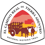 Logo of El Camino Real de Tierra Adentro National Historic Trail, Texas and New Mexico, USA